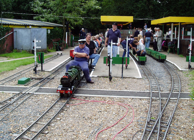 Great Cockcrow Railway, Egham, Surrey This railway is not just for amusement. It is signalled according to full main-line practice and has been used by British Rail in training signal staff.